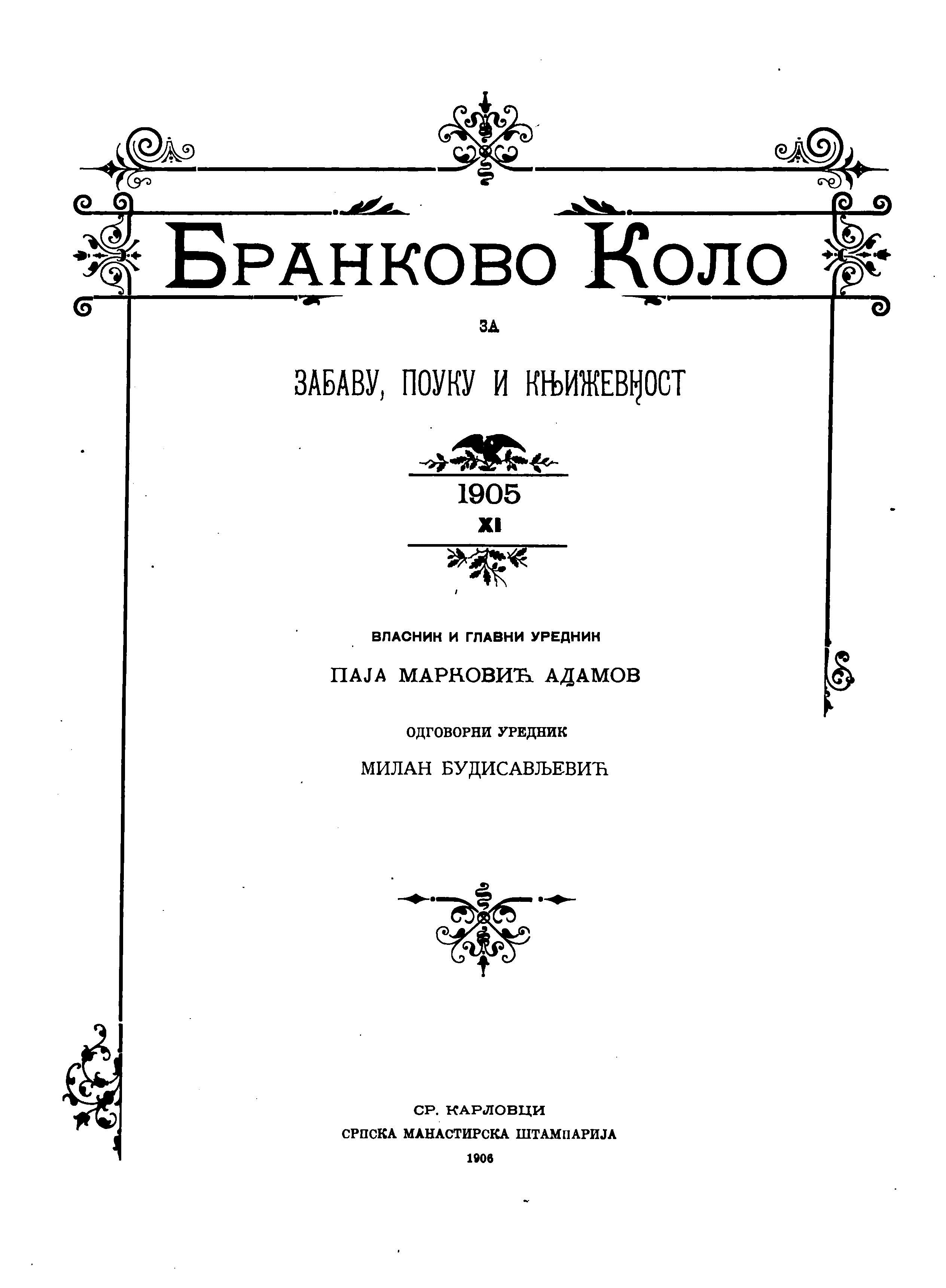 Title page of Бранково коло, ур. Паја Марковић Адамов, XI, Ср. Карловци 1905